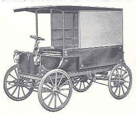 "Model 11" was one of three Maytag commercial cars. It was based on the Maytag 20 HP two cylinder automobile with 2 speed planetary speed, double chains to the rear axle, and engines designed by the Duesenberg brothers. It is pictured here with fixed roof and panel sides.